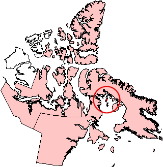 Base image created by Keith Edkins as GFDL, modified by Tim Vasquez.